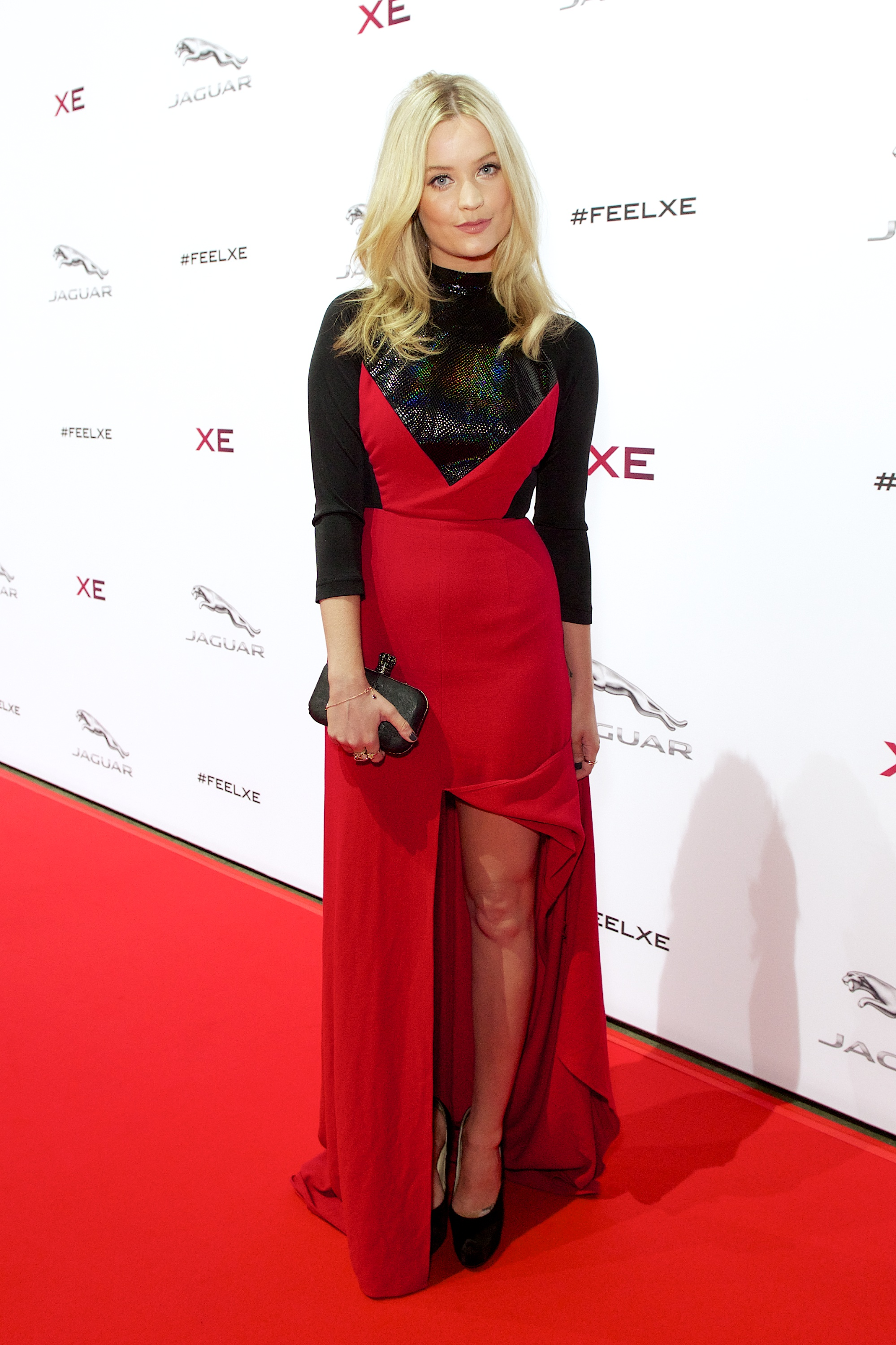 Laura Whitmore was a guest of Jaguar at the reveal of the new XE in London, Monday 8th September 2014.